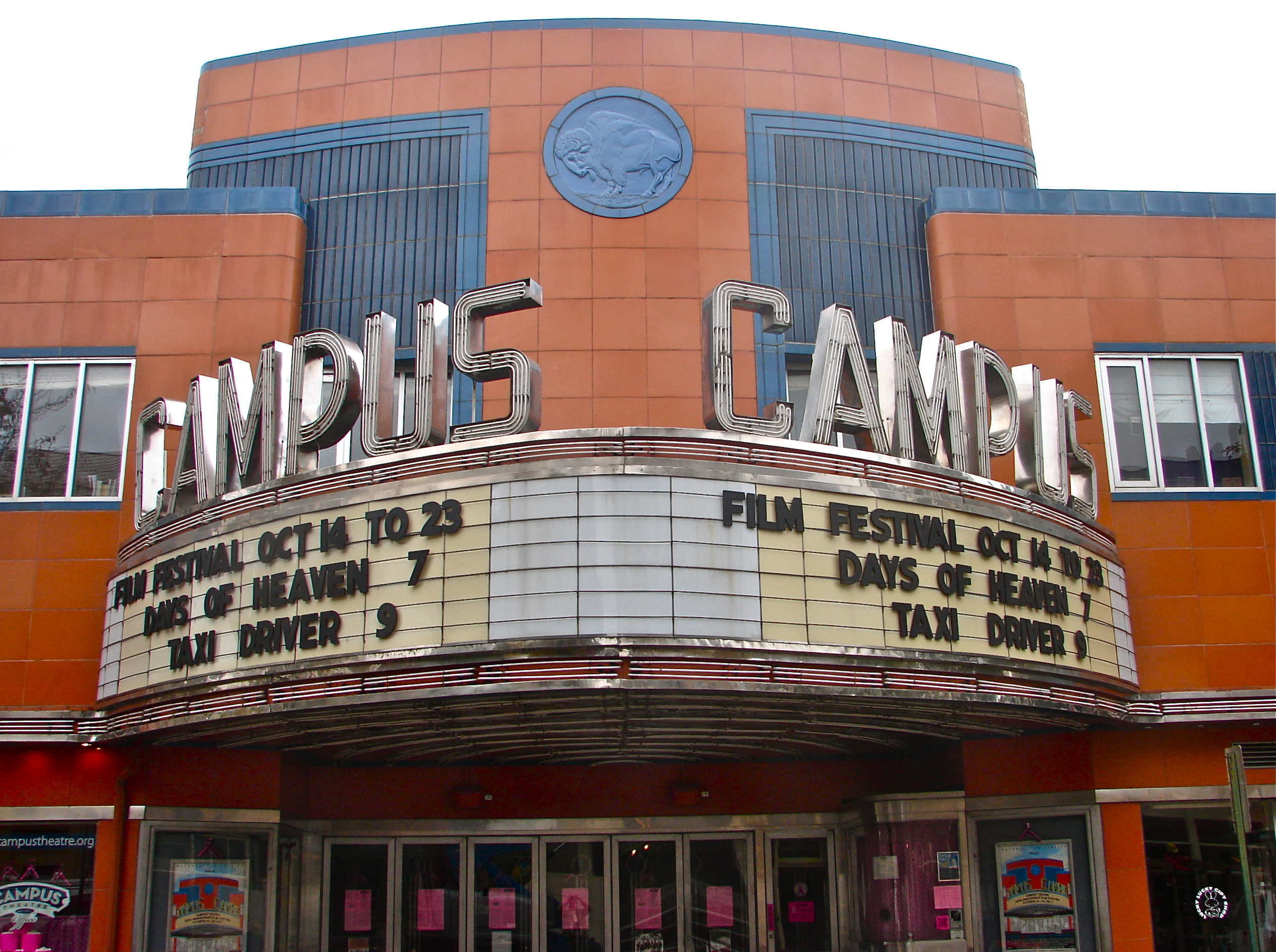 Campus Theater in Lewisburg, Union County, Pennsylvania. Campus refers to Bucknell University as does the Buffalo (mascot of Bucknell). On the main drag, PA 45